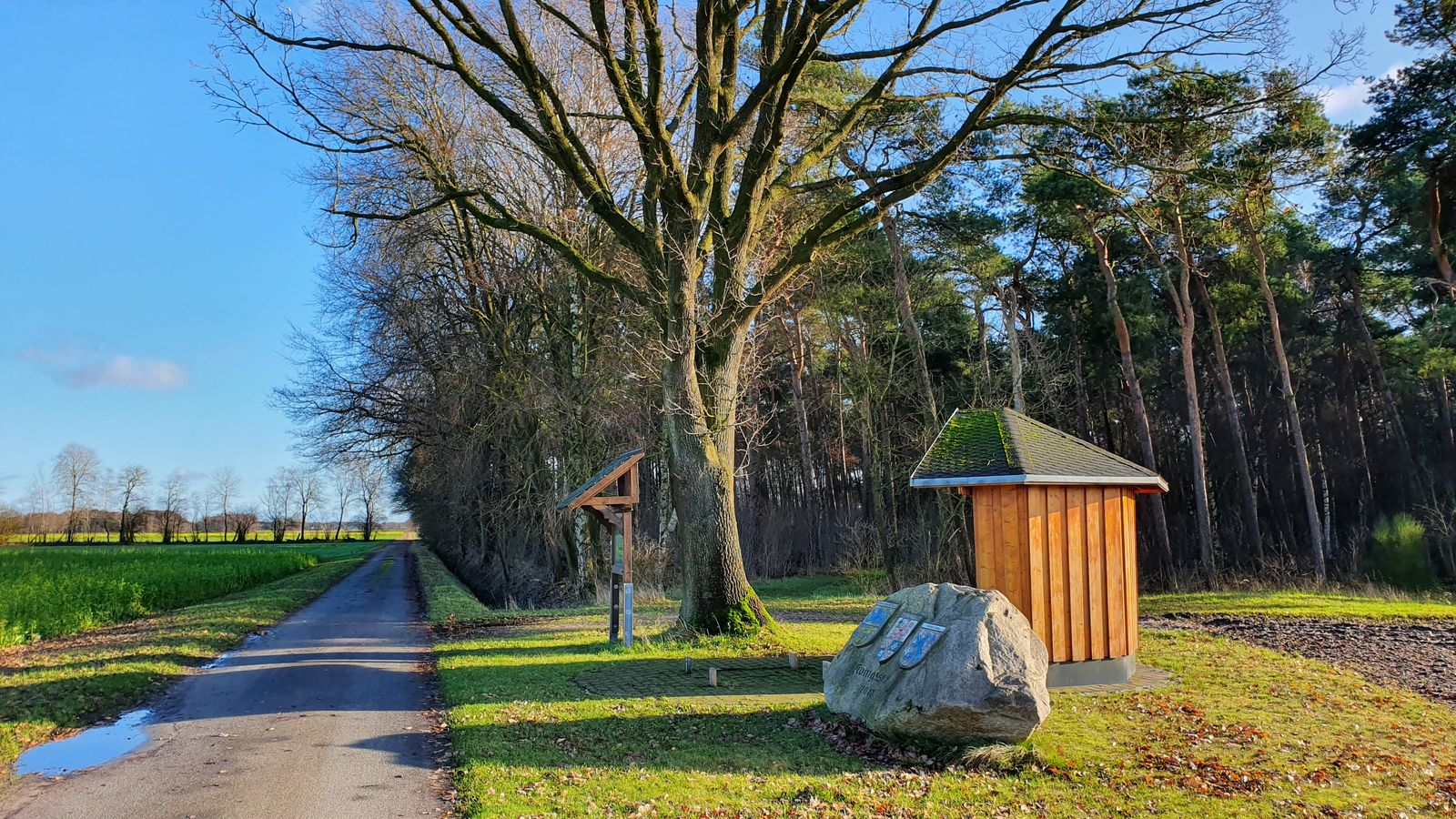 Königsstein in Königsmoor 001